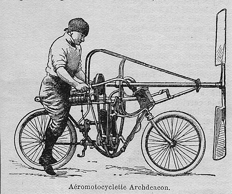 Aéromotocyclette, made by Ernest Archdeacon, in 1906. 6 HP engine, 1.50m propeller, 70 kg, 79 km/h